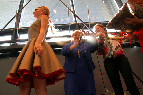 The opening of Kuben vocational arena in august 2013, by Erna Solberg and Kristin Skogen Lund.